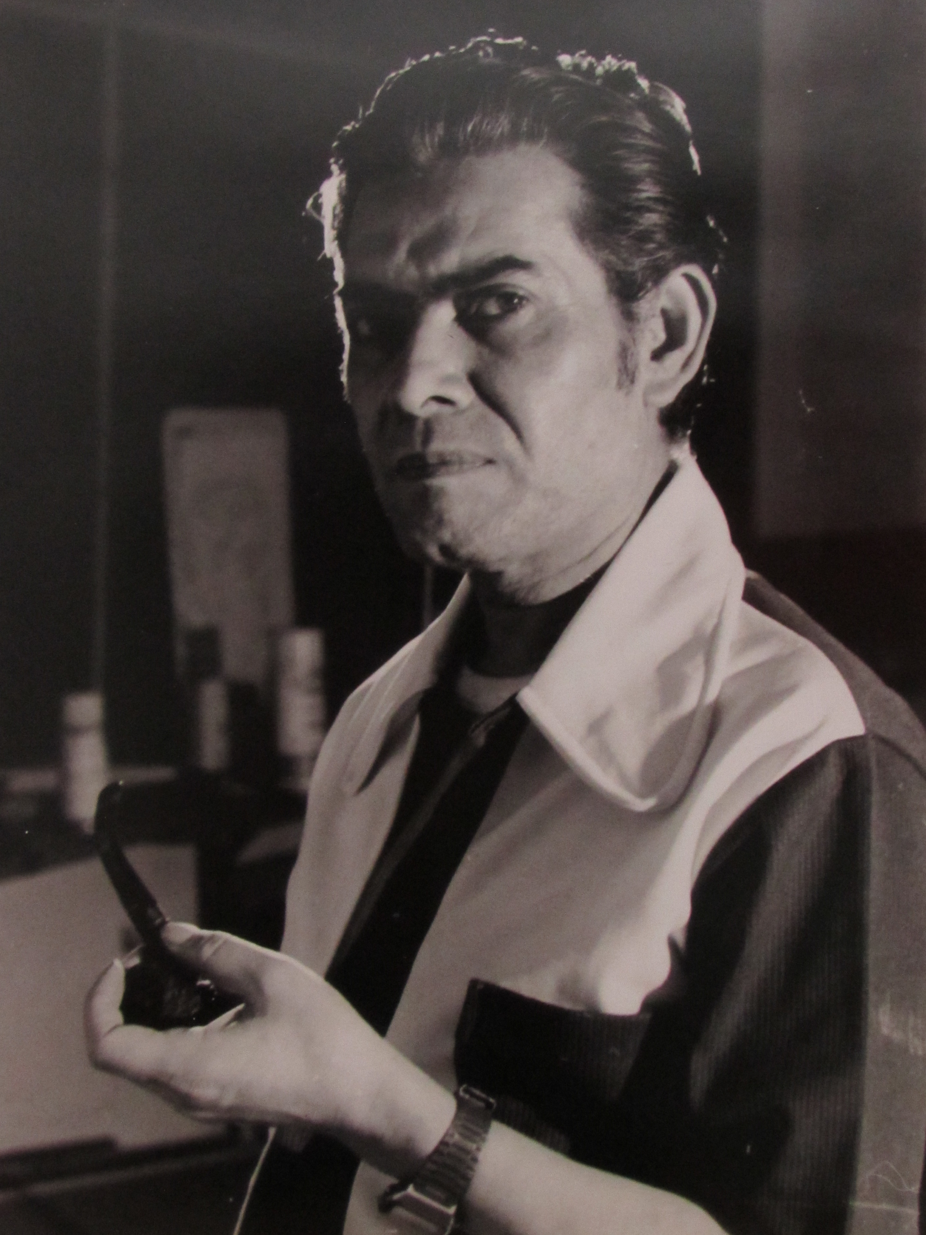 Portrait of Francisco Zenteno Bujáidar taken in the 1980s